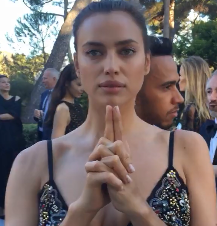 Irina Shayk at amFAR gala in2016